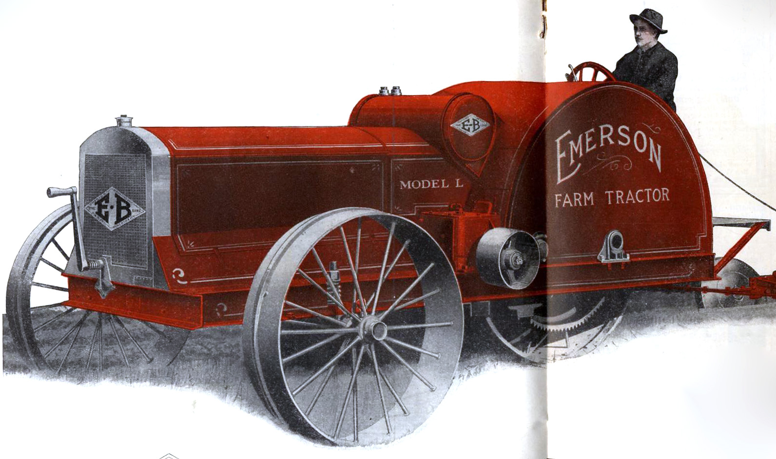 Emerson Model L tractor, manufactured by Emerson-Brantingham in Rockford, Illinois, advertised with a 2-page color spread in the February 5, 1916 Country Gentleman.